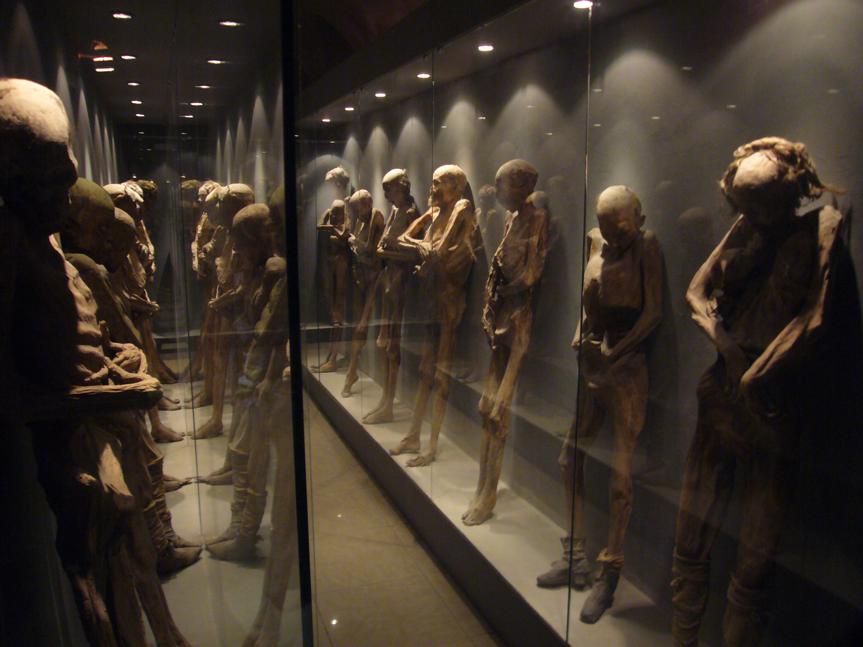 All Lined Up - Las Momias (The Mummies), Guanajuato, México